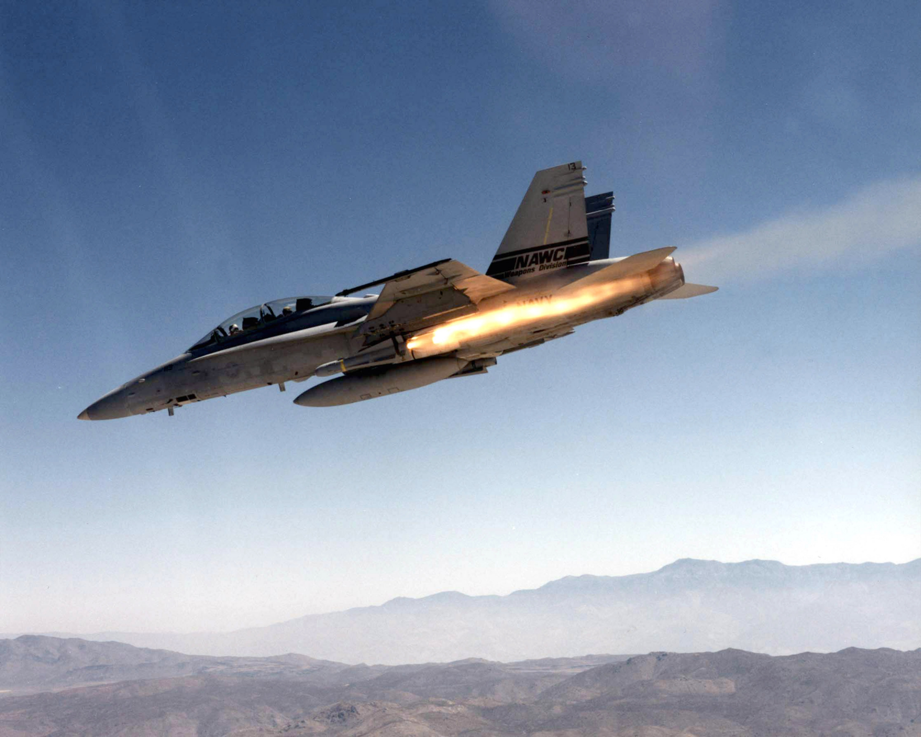 A U.S. Navy F/A-18D Hornet launches an AGM-65E Maverick missile at the U.S. Navy Naval Air Warfare Center China Lake, California (USA).